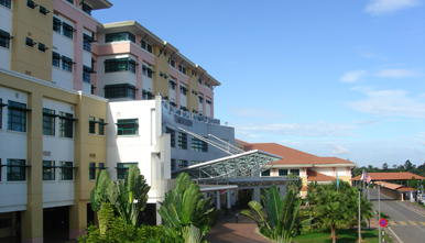 Sultan Haji Ahmad Shah Hospital, Temerloh, Pahang, MalaysiaBahasa Melayu: Hospital Sultan Haji Ahmad Shah, Temerloh, Pahang, Malaysia